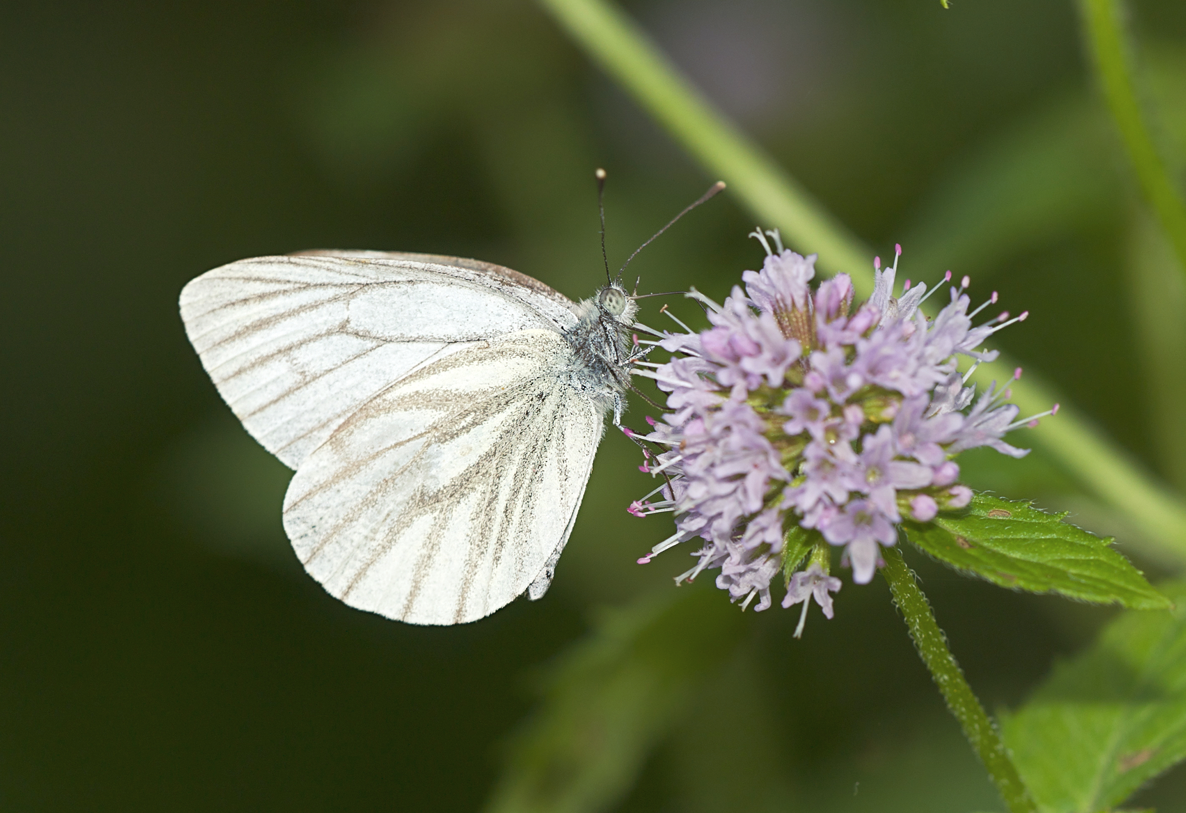 Male Green-veined White (Pieris napi), Chemnitz, Germany